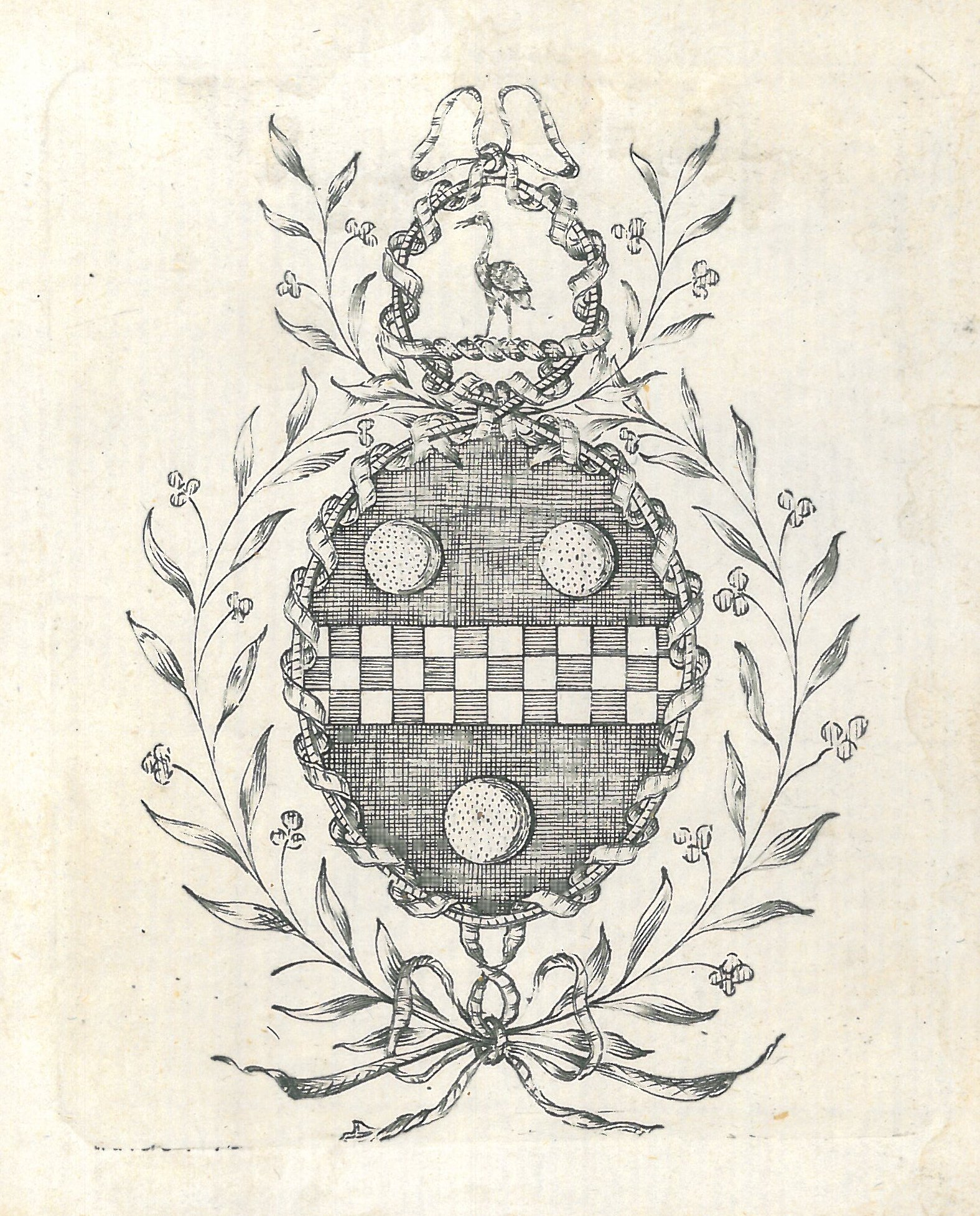 The coat of arms of the Pitt family on a bookplate on a copy of Edward Coke (1644) The Fourth Part of the Institutes of the Laws of England: Concerning the Jurisdiction of the Courts, 1st edition, London: Printed by M[iles] Flesher for W[illiam] Lee and D[aniel] Pakeman, OCLC 83289236.